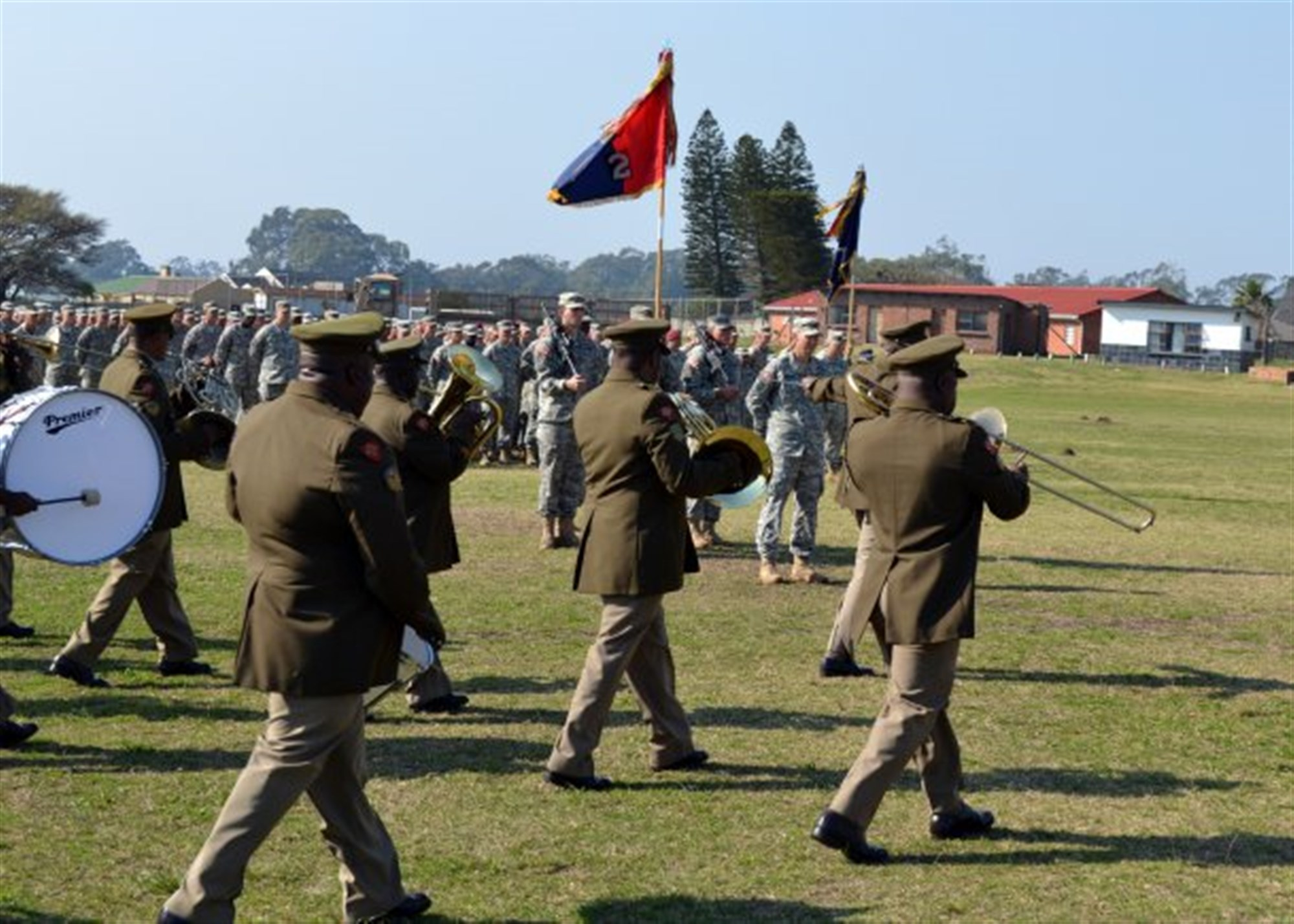 U.S., South African Militaries Celebrate Completion of Successful Bilateral Exercise